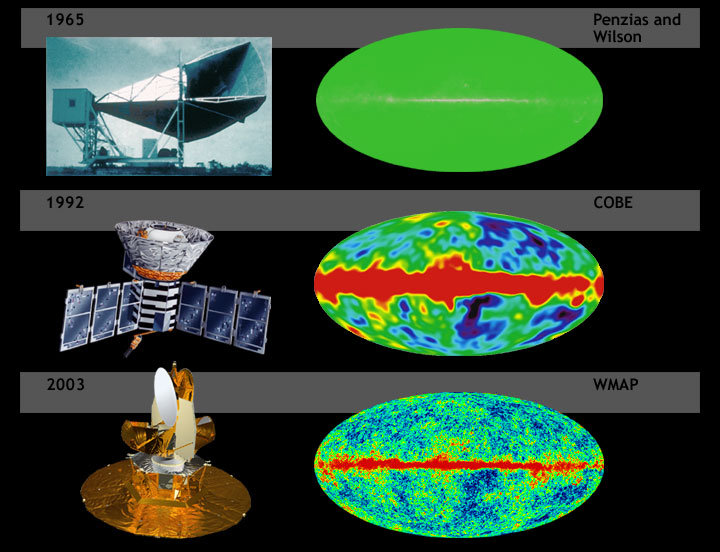 Diagram of the history of the Cosmic Microwave Background Radiation (CMBR), showing the improvement of CMBR resolution over the years. The CMBR, a faint microwave radiation permeating all space that can be detected by radio telescopes, is remnant radiation left from the Big Bang, and one of the few sources of information on conditions in the early universe. (top left) Penzias and Wilson microwave horn antenna at Bell Labs, Murray Hill, NJ - 1965 Penzias and Wilson discovered the CMBR from the Big Bang and were awarded the 1978 Nobel Prize in physics for their work. (top right) Simulation of the sky viewed by Penzias and Wilson's microwave receiver - 1965 (middle left) COBE spacecraft (painting) - The Cosmic Background Explorer (COBE), launched in 1989, first discovered patterns in the CMBR, and Mather and Smoot were awarded the 2006 Nobel Prize for that work. (middle right) COBE's map of early universe- 1992 (bottom left) WMAP spacecraft (computer rendering) - The Wilkinson Microwave Anisotropy Probe (WMAP), launched in 2001 and active until 2010, mapped the patterns with much higher resolution to unveil new information about the history and fate of the universe. Bennet, Page, and Spergel won the 2010 Shaw Prize for their WMAP work. (bottom right) Simulated WMAP view of early universe